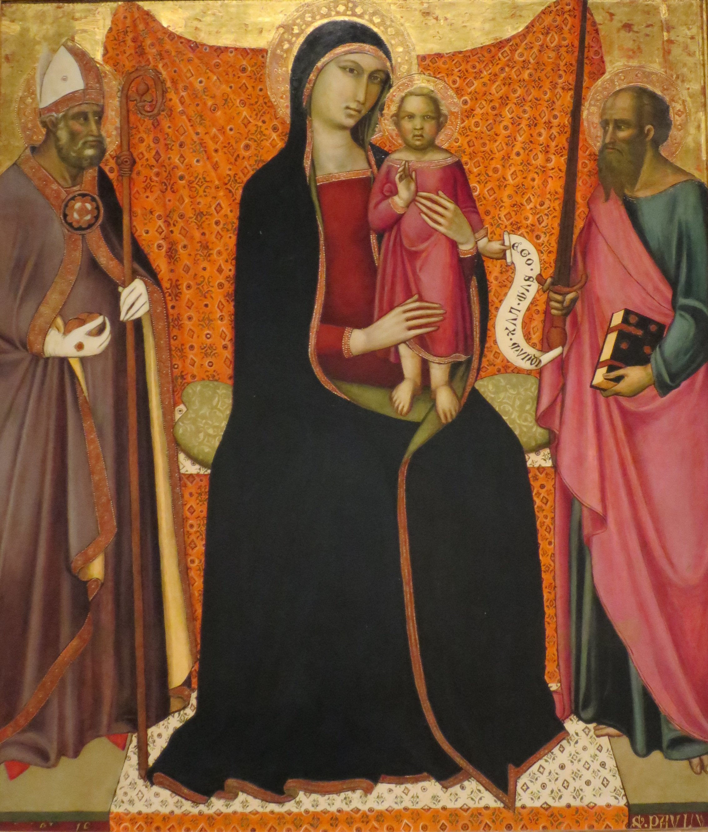 Luca di Tommè (1330–1389) Alternative names Lucca di Tommè, Luca di Tomè, Maestro della MaddalenaDescriptionItalian painterDate of birth/death circa 1330 date QS:P,+1330-00-00T00:00:00Z/9,P1480,Q5727902 after 1389 date QS:P,+1389-00-00T00:00:00Z/7,P1319,+1389-00-00T00:00:00Z/9Location of birth/death Siena SienaWork periodbetween 1356 and 1389 date QS:P,+1350-00-00T00:00:00Z/7,P1319,+1356-00-00T00:00:00Z/9,P1326,+1389-00-00T00:00:00Z/9Work location Siena, Rieti, PisaAuthority control : Q1857438 VIAF: 47587287 ISNI: 0000 0000 5766 1652 ULAN: 500003597 LCCN: n83190560 WGA: LUCA DI TOMMÈ WorldCat creator QS:P170,Q1857438 Madonna and Child with Sts. Nicholas and Paul, circa 1370 Painting, Tempera on panel, unspecified: 52 1/4 x 45 1/8 in.; 132.715 x 114.6175 cm; framed: 61 x 52 x 2 1/2 in. (154.94 x 132.08 x 6.35 cm); sight: 51 x 44 3/8 in. (129.54 x 112.71 cm) Gift of Samuel H. Kress (31.22)